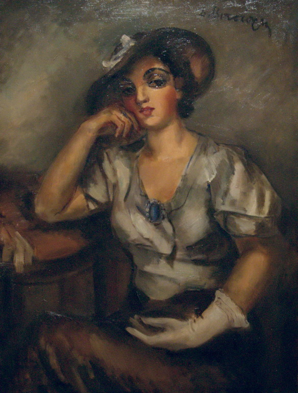 The lady with the white glove